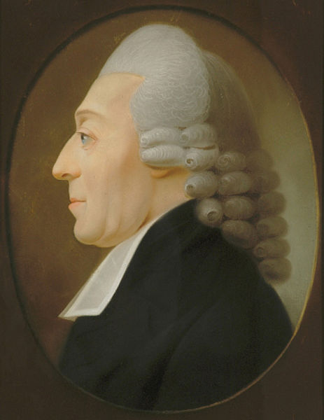 Johann August Ephraim Goeze (1731-1793) was a German zoologist and church pastor from Aschersleben.